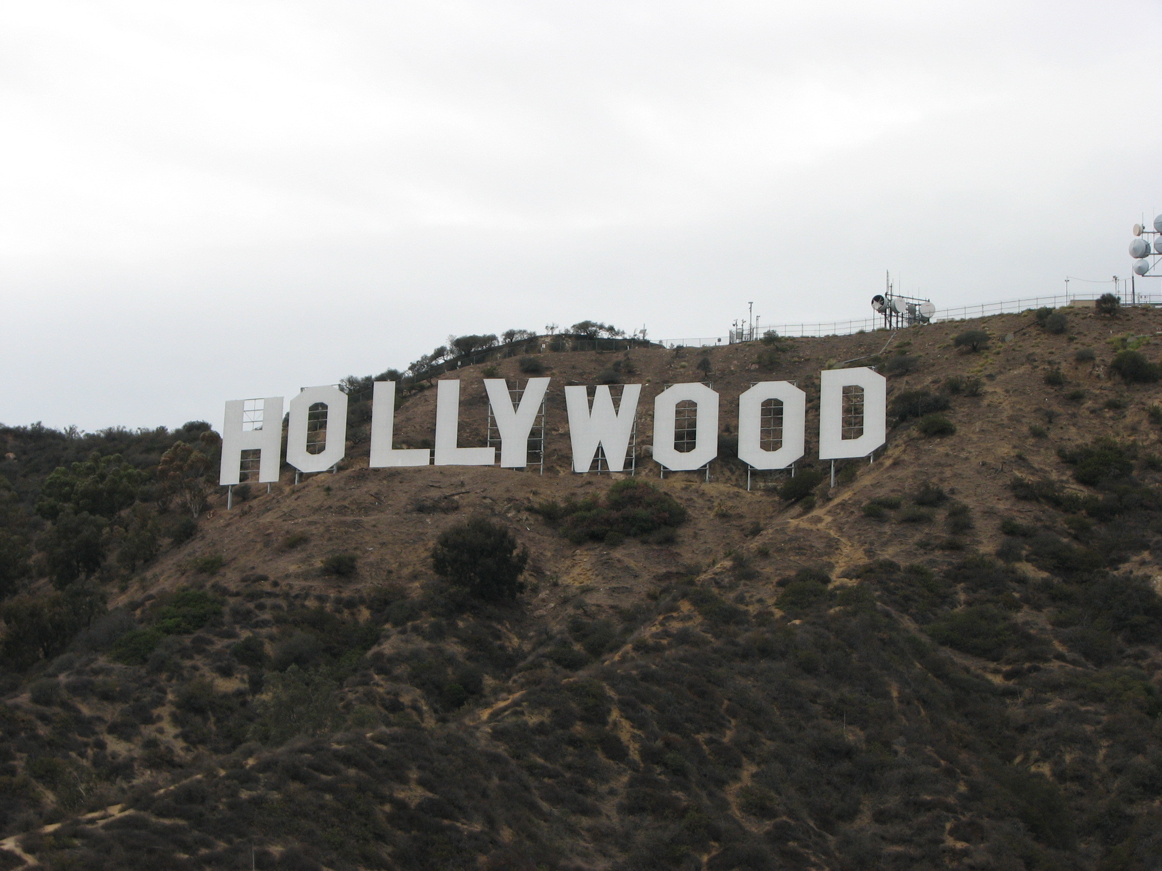 Hollywood Sign